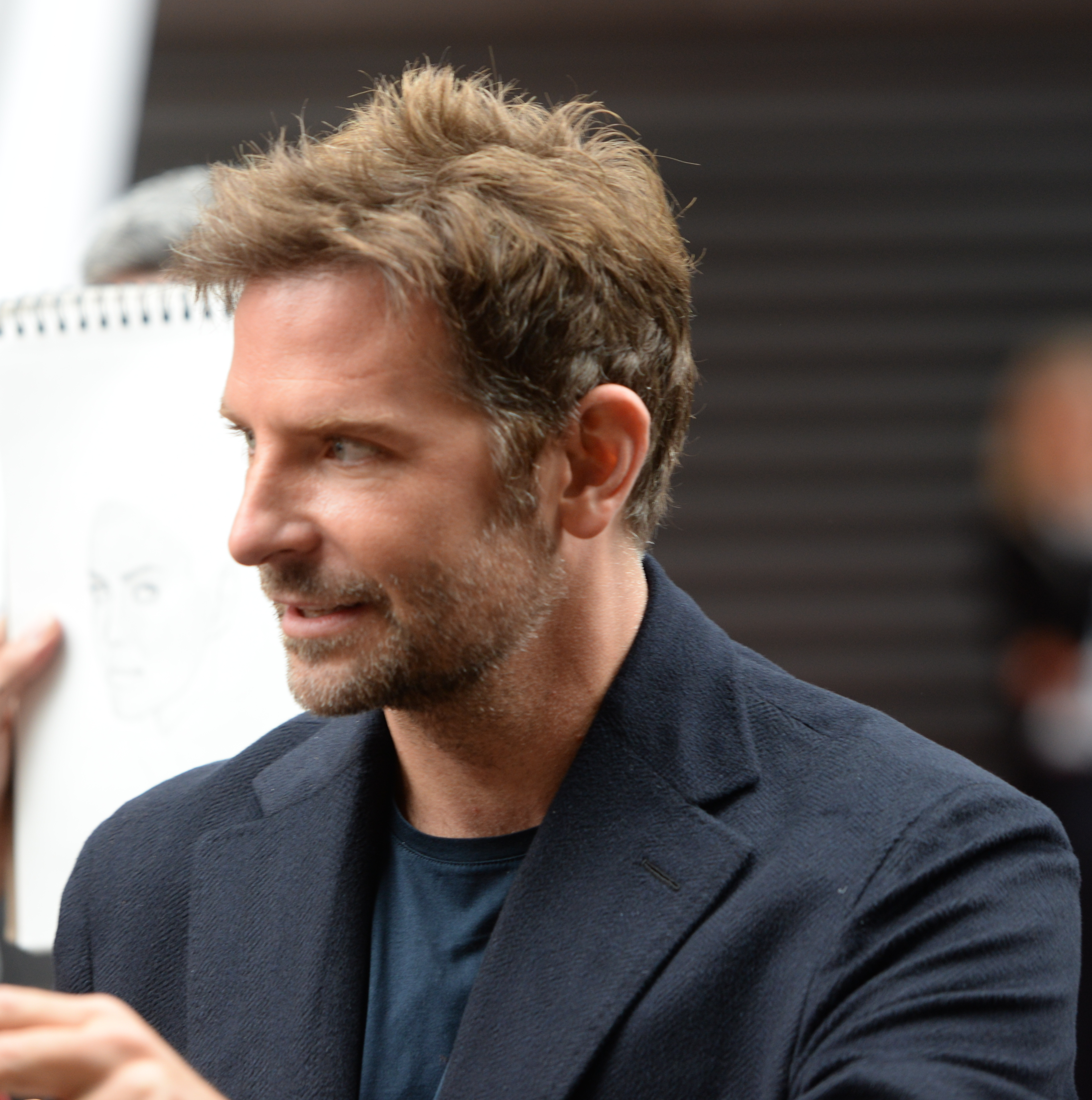 Bradley Cooper